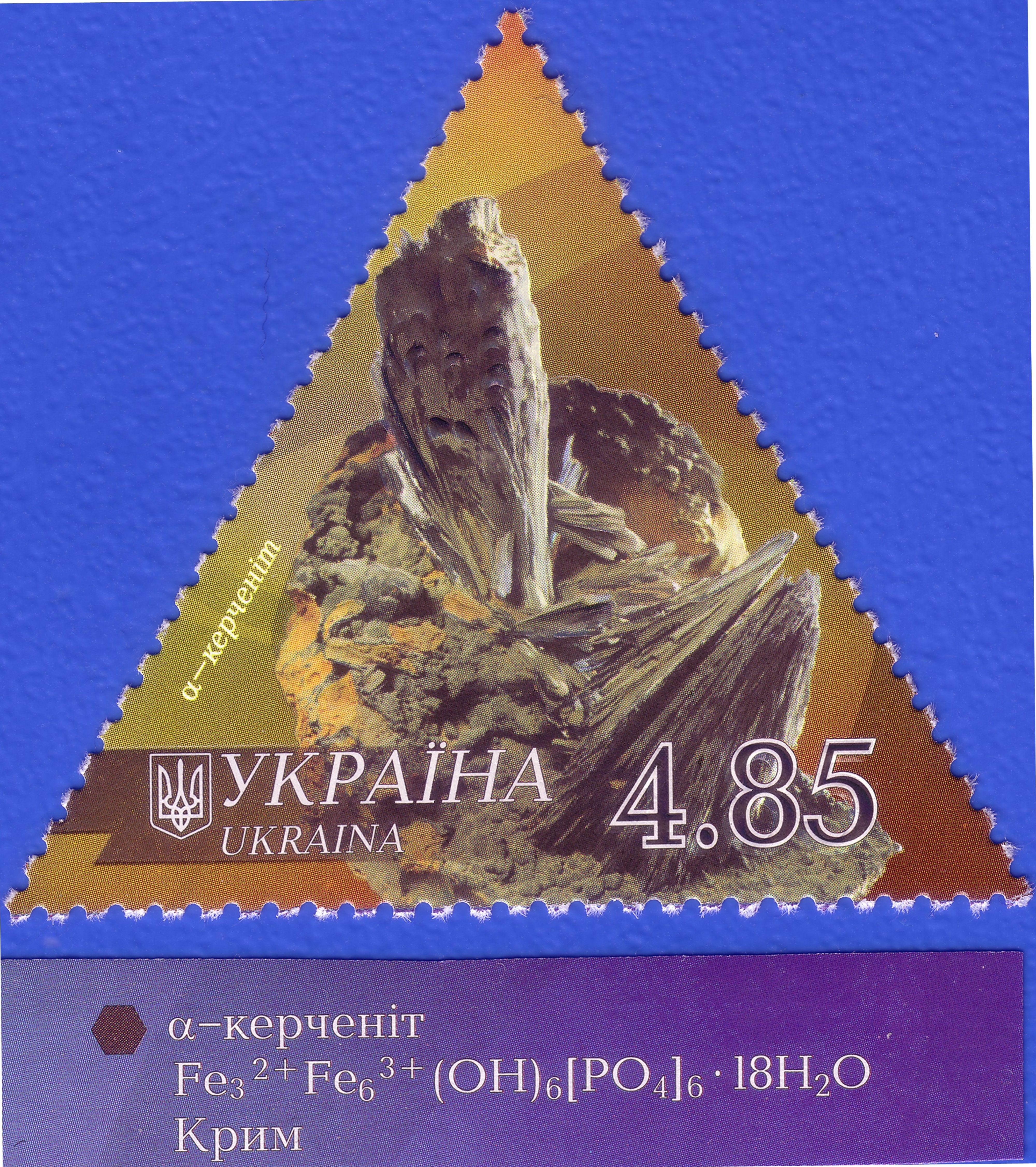 Triangular stamp of Ukraine from the series "Minerals". Par 4 c. 85 kopecks. 2009. Alpha kerchenite [Metavivianite].